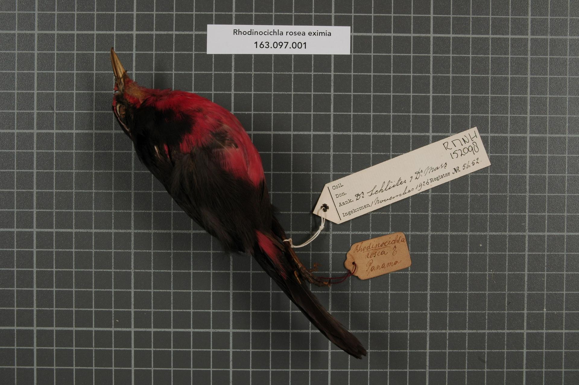 Rhodinocichla rosea eximia Ridgway, 1902